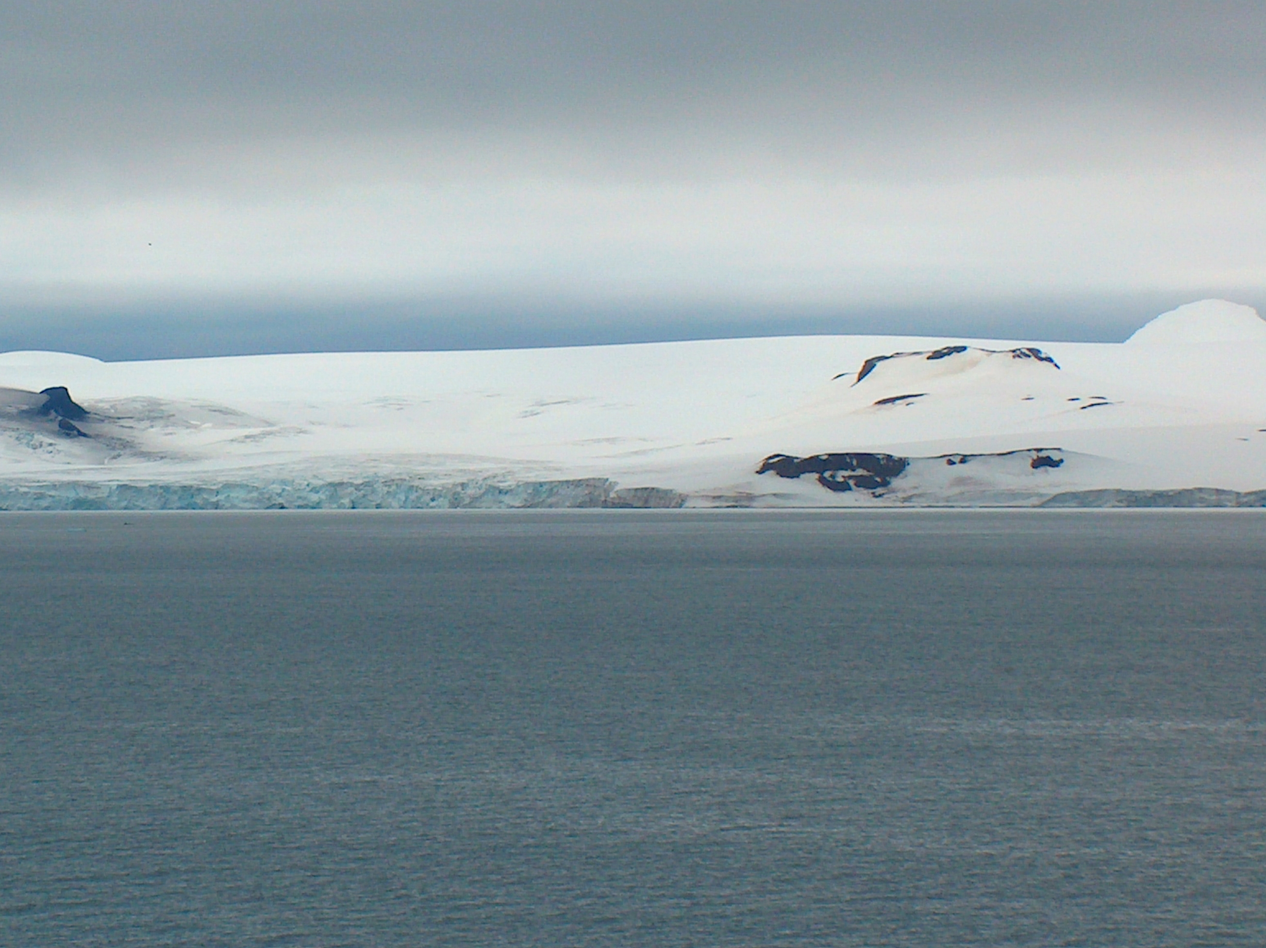 Kaspichan Point, Greenwich Island, Antarctica seen from Half Moon Island